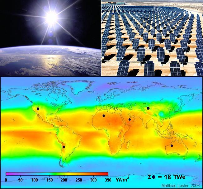 Collage of solar energy; clockwise, from upper left, the sun over the earth from space, the Nellis Solar Power Plant, and the average solar energy available at the surface, with the black dots showing the total land area required to equal the total energy used in 2006, assuming a conversion efficiency of 8%.